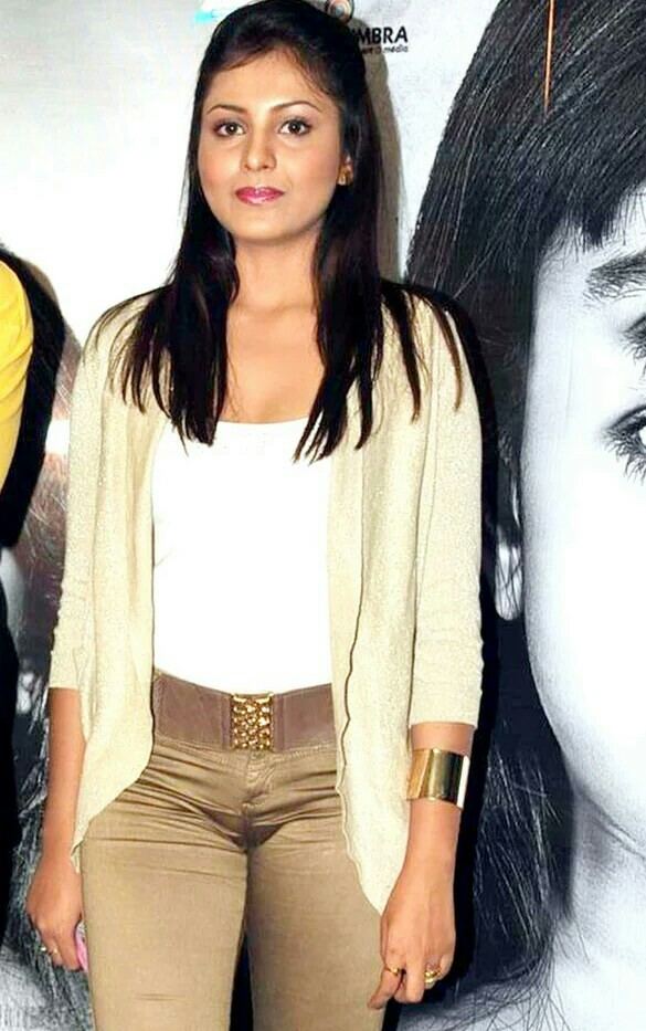 Madhu meet of ‘Bhoot Returns’